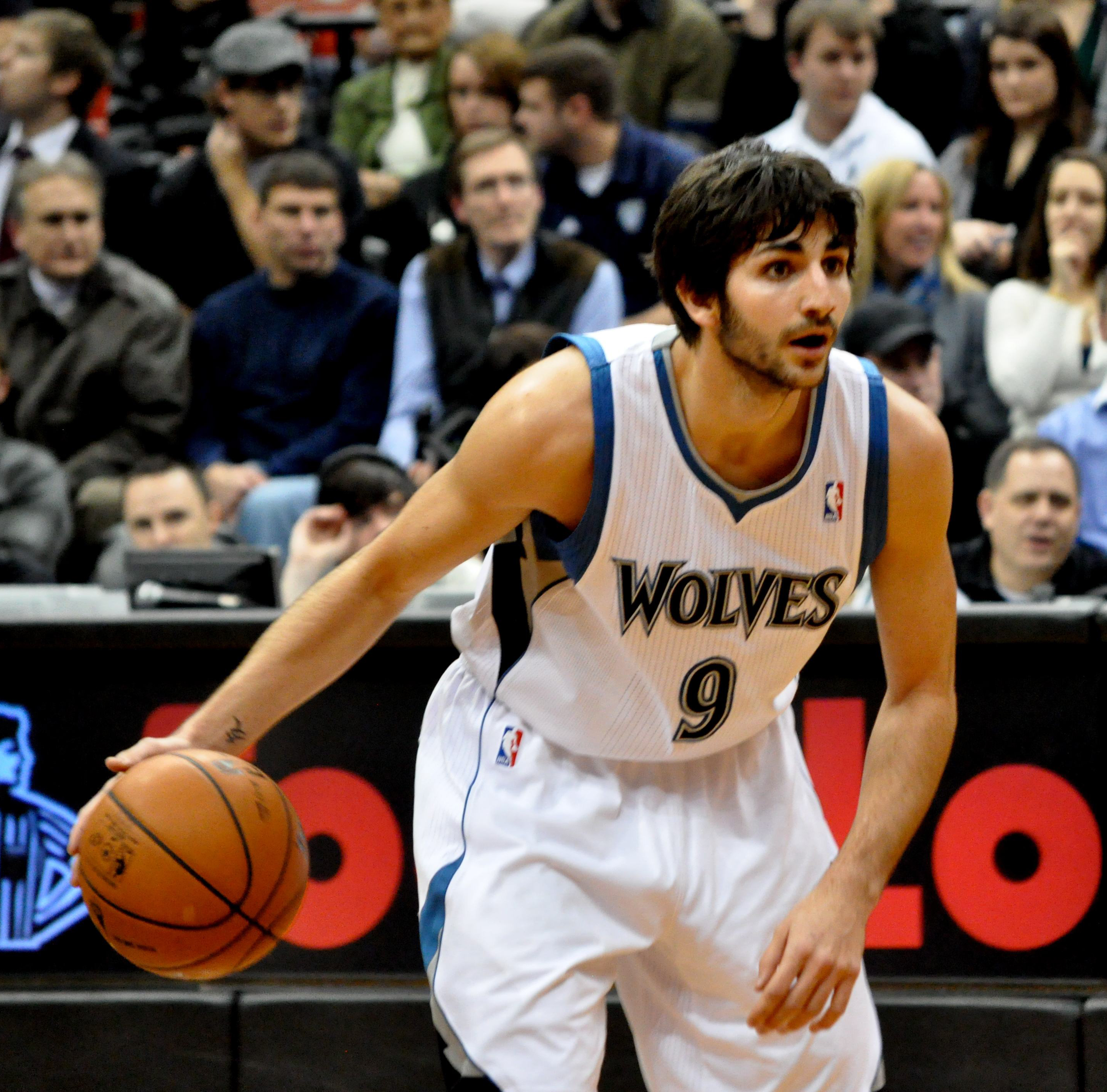 Ricky Rubio of the Minnesota Timberwolves